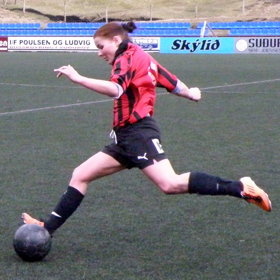 Heidi Sevdal is a Faroese female football (soccer) player, who currently (2012) plays for HB Tórshavn. She has earlier played for Víkingur Gøta, B36 Tórshavn and NSÍ Runavík. She also plays for the women's national team of the Faroe Islands. Føroyskt: Heidi Sevdal er ein føroyskur fótbóltsleikari, sum spælir í bestu kvinnudeildini, í løtuni (2012) við HB, hon hevur fyrr spælt við Víkingini, B36 og NSÍ. Hon spælir eisini við føroyska kvinnu A-landsliðnum.